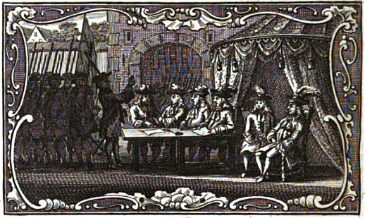 Siege of fort st Andries (Netherlands) 16 februar 1600